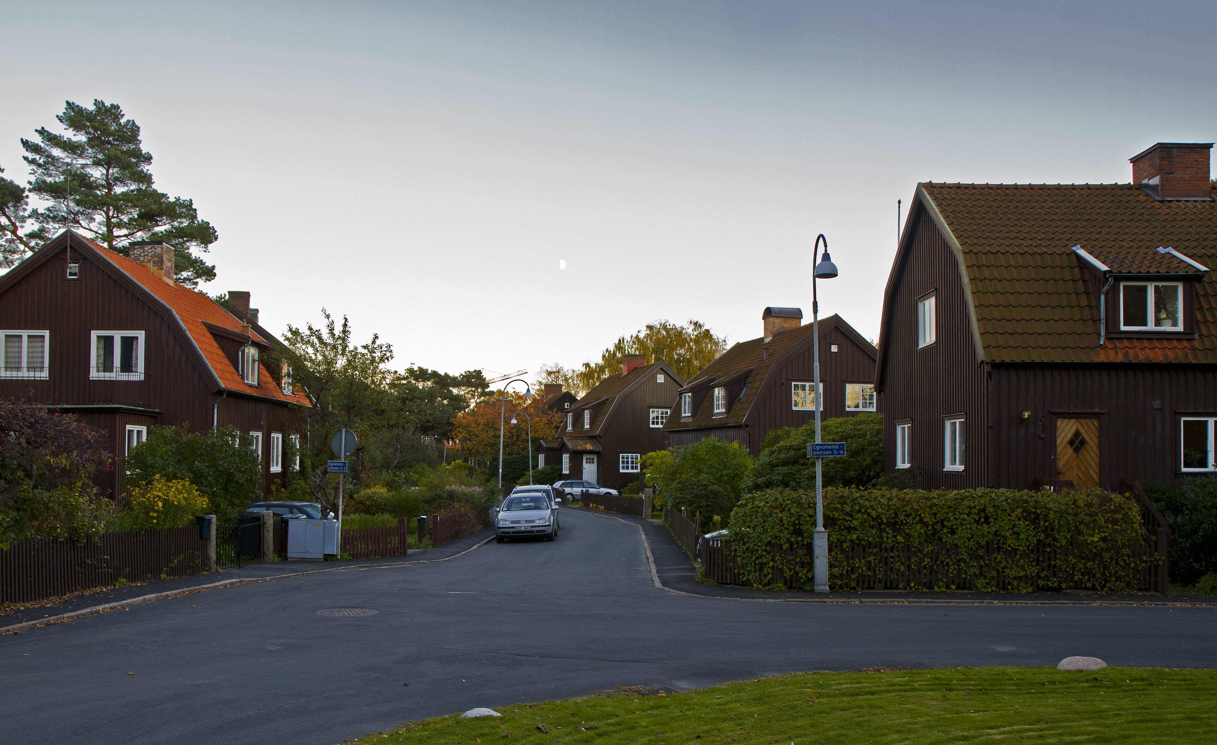 Landala Egnahem, October 2010